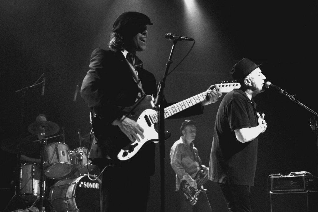 Pankow (German Band), Germany, Concert 2011-11-04 in Schwedt